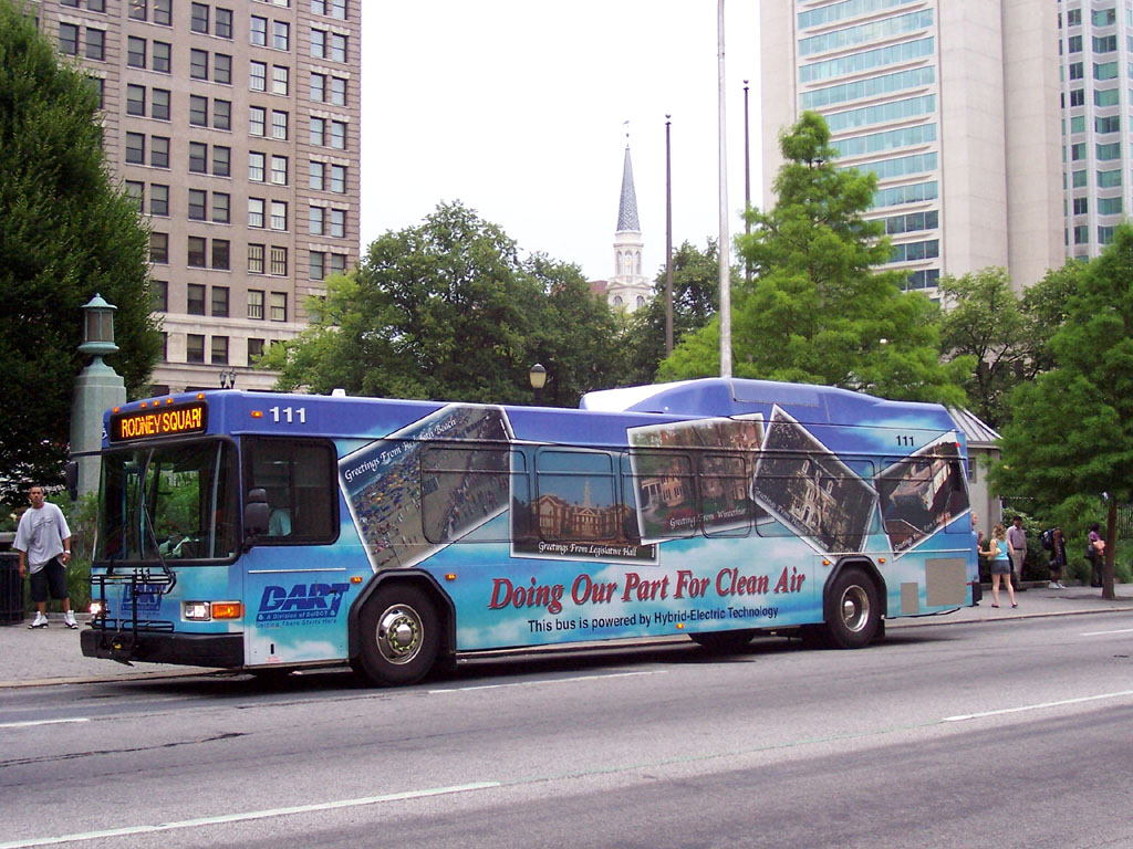 DART First State Gillig hybrid #111 in downtown Wilmington, DE.